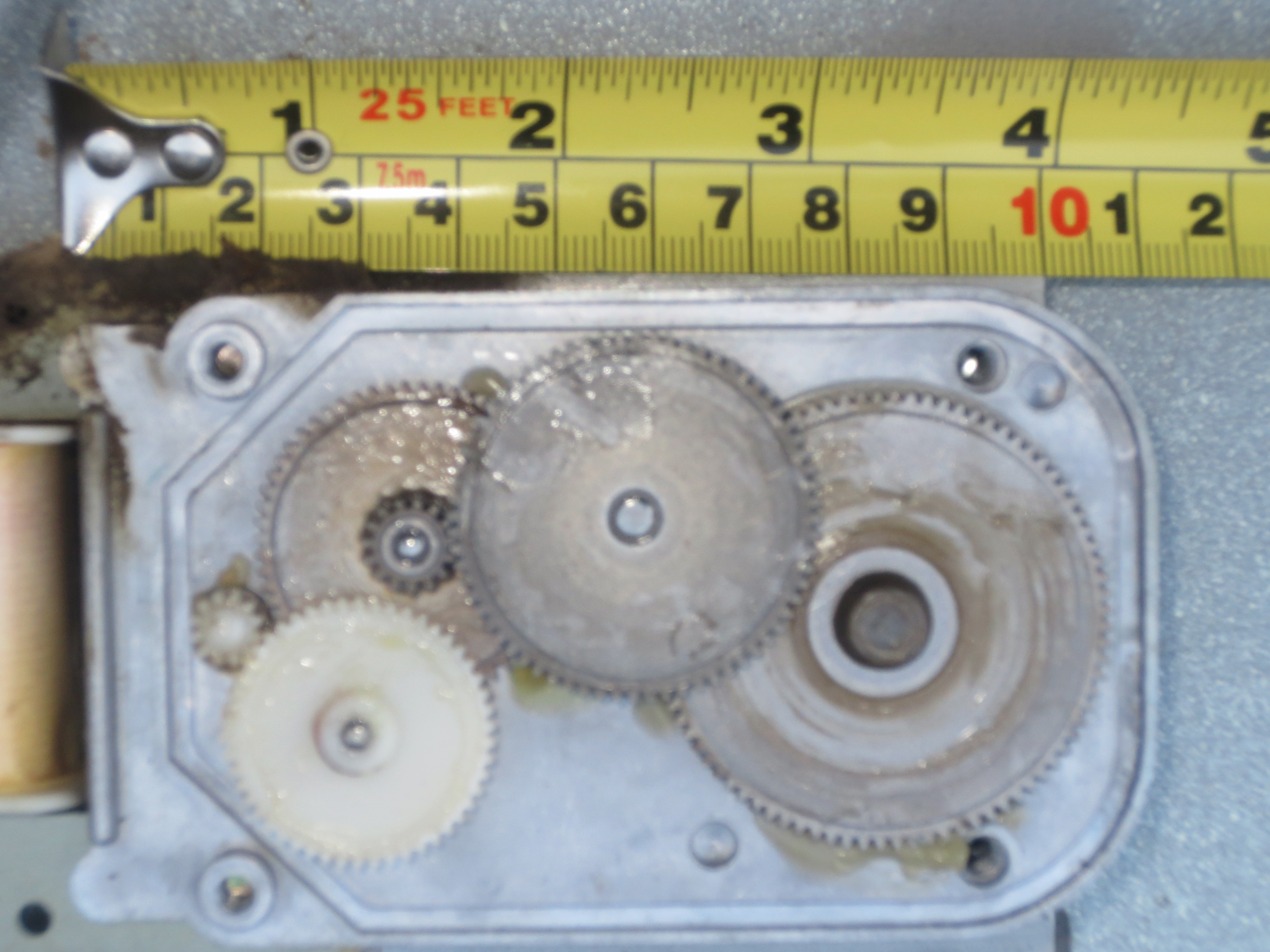 reducer gears in a microwave oven. For driving the microwave turntable